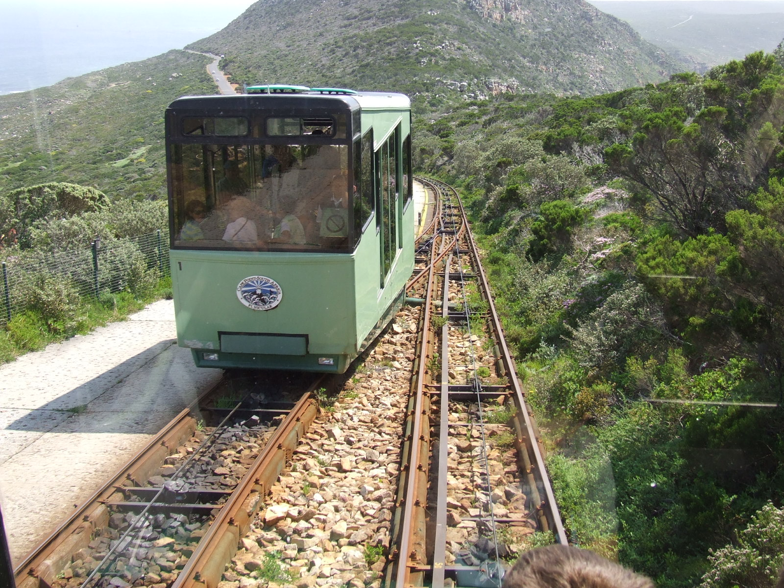 Flying Dutchman Funicular at Cape Point, which is the most South Western point of Africa.